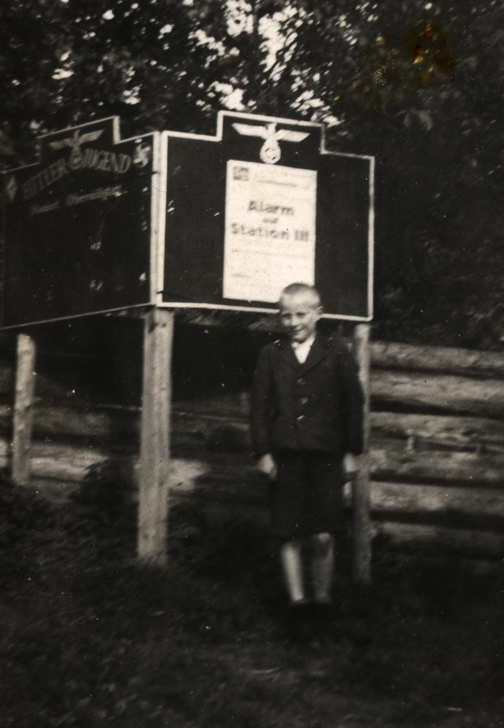 Bulletin board during the Nazi era in Obermillstatt near Millstatt (Millstätter See), district Spittal an der Drau in Carinthia / Austria / EU.